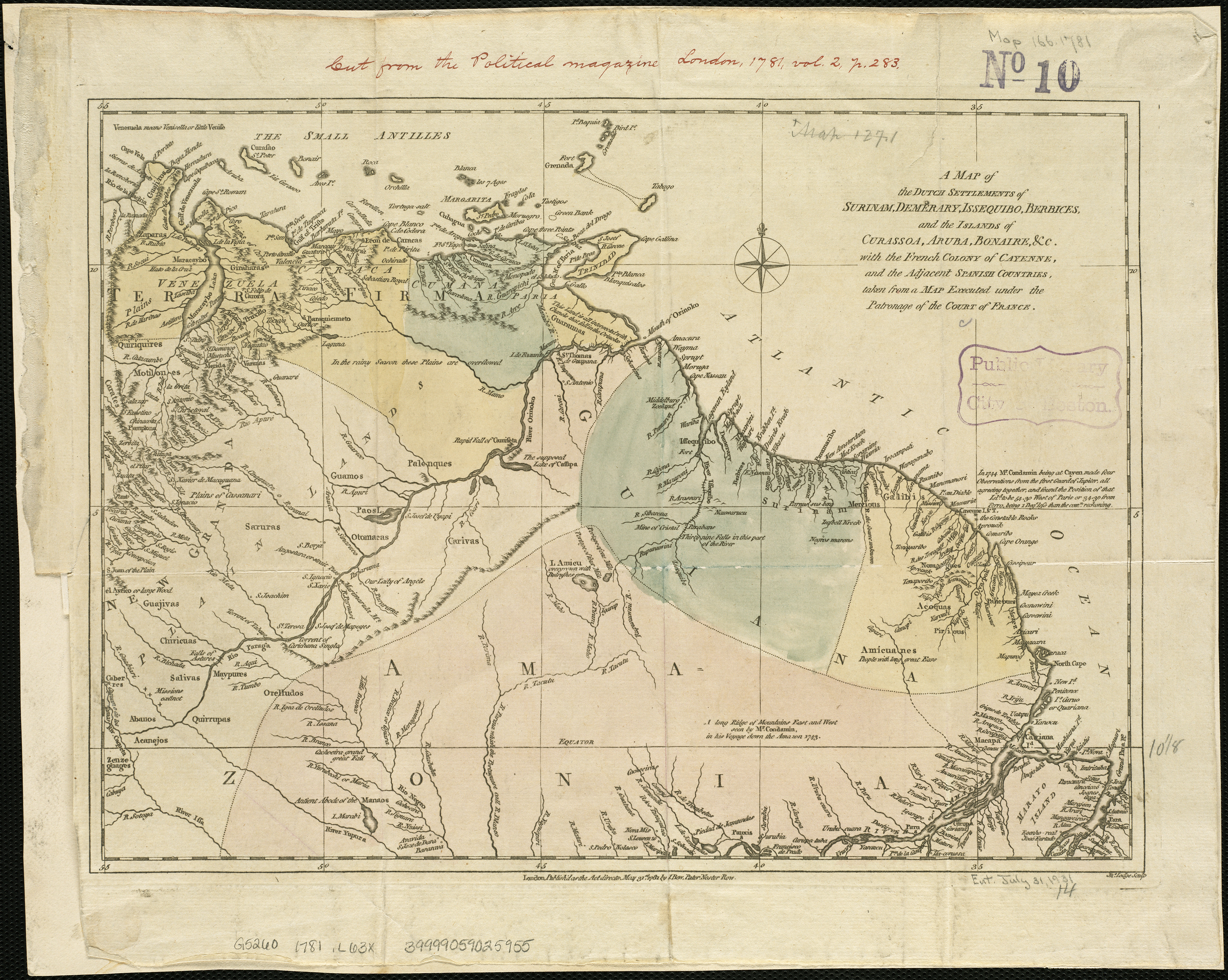 Zoom into this map at . Author: Lodge, John Publisher: Bew, John Date: 1781 Location: Netherlands Antilles, Suriname Dimension 26x36cm Scale: Scale not given Call Number: G5260 1781 .L63x